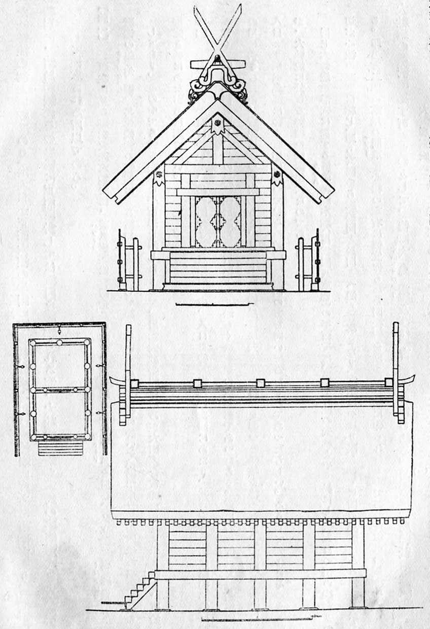 Front and Side View of the Honden at the Sumiyoshi Shrine